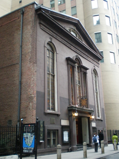 This photo is of Wikipedia Takes Manhattan location code 151, John Street Methodist Church.